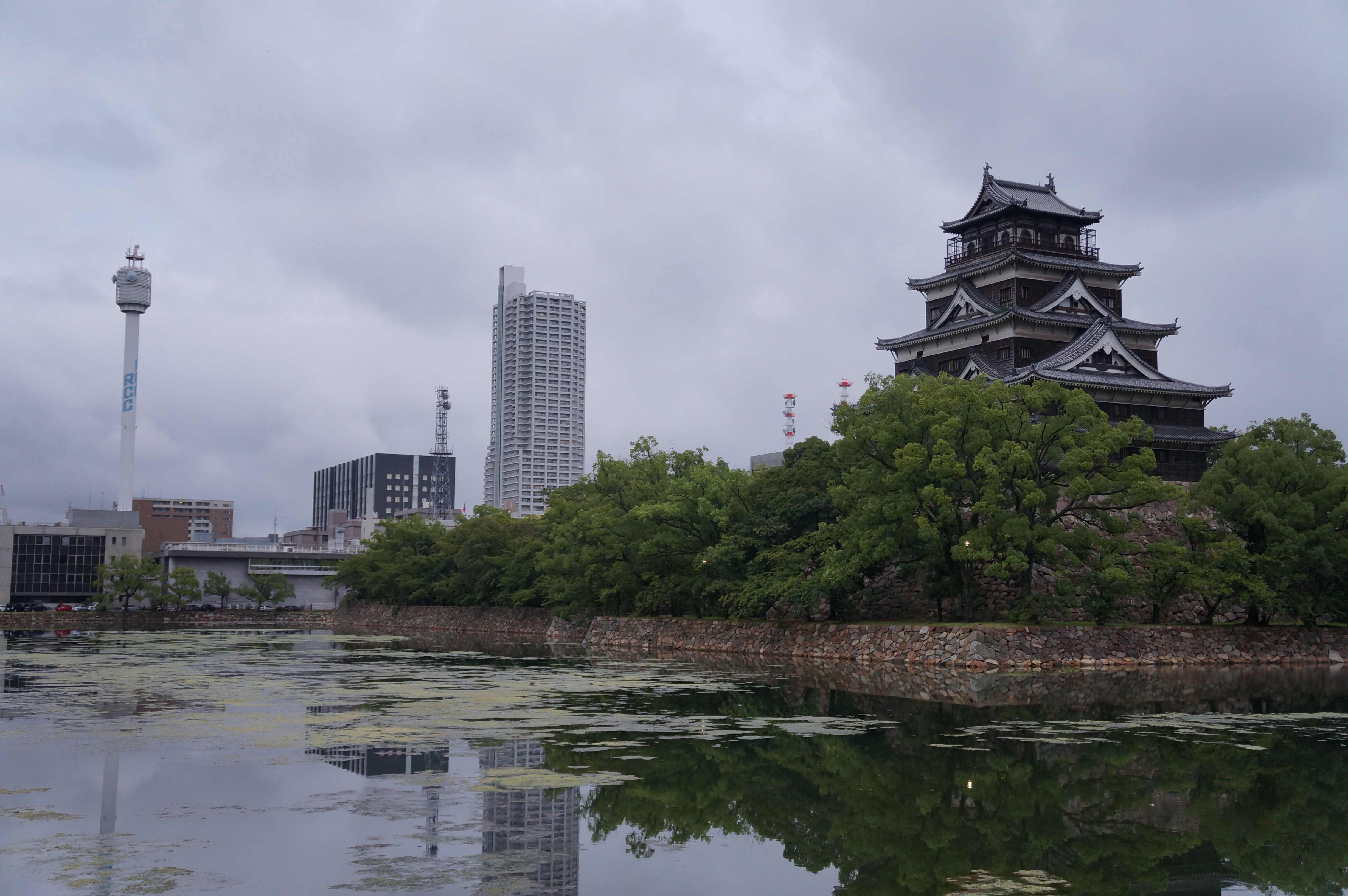 Hiroshima Castle, Japan